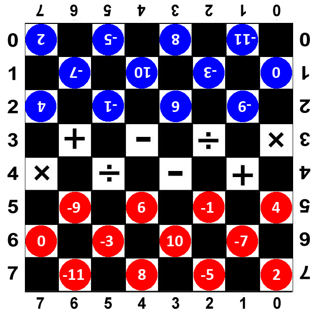 Integer Damath Piece Arrangement